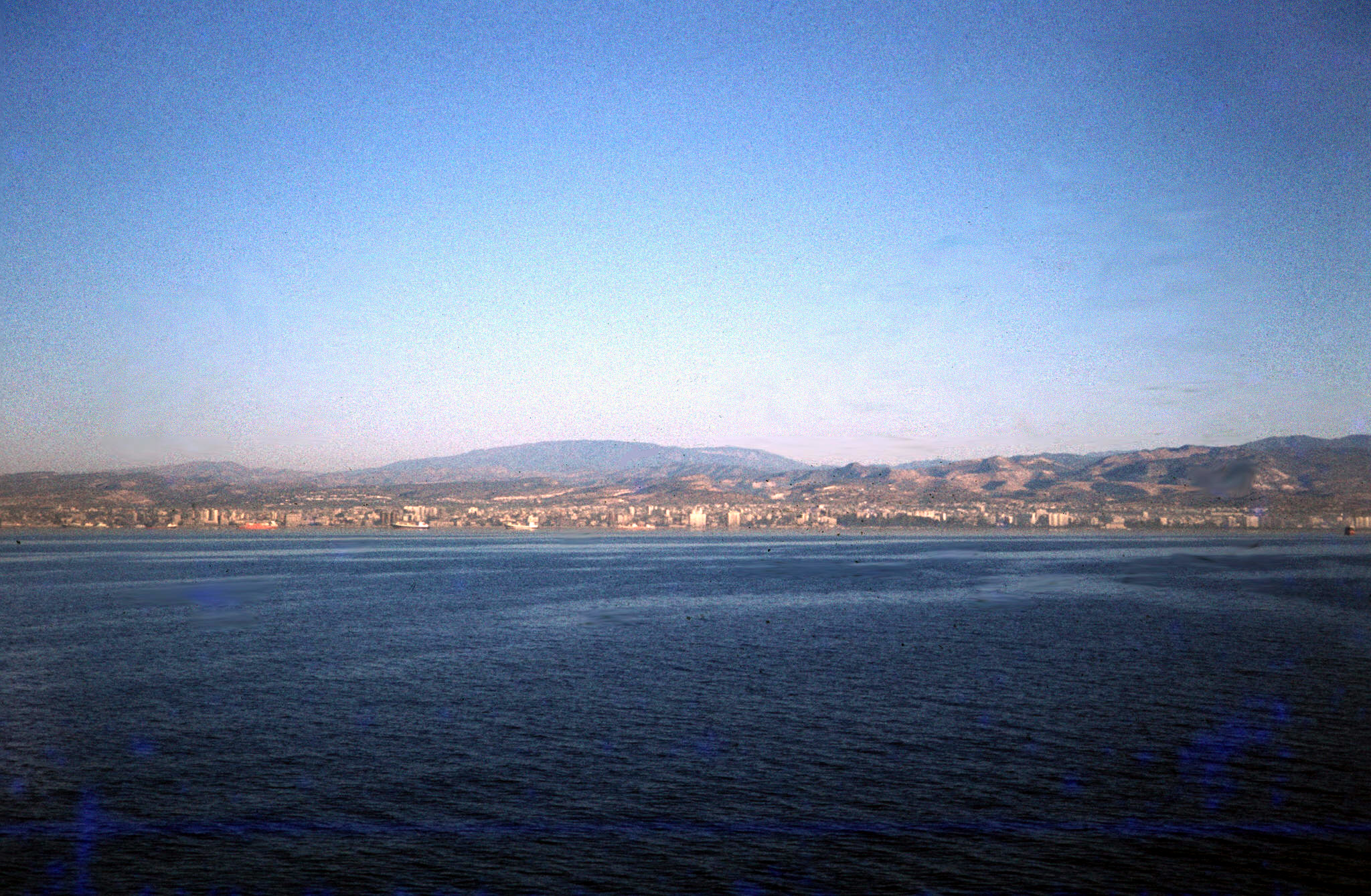 Port of Latakia — and Mediterranean coast of Syria (1979). Latakia Governate, western Syria.